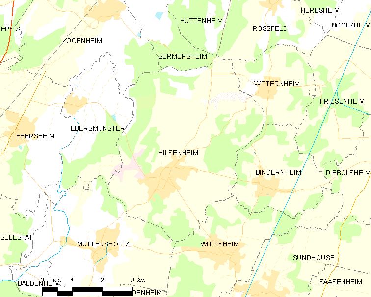 Map of French municipality